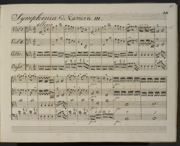 A handwritten page [folio 25r] from BL Add MS 49626, Symphony no. 15 in E flat major by William Herschel, in the composer's own hand. Held and digitised by the British Library.